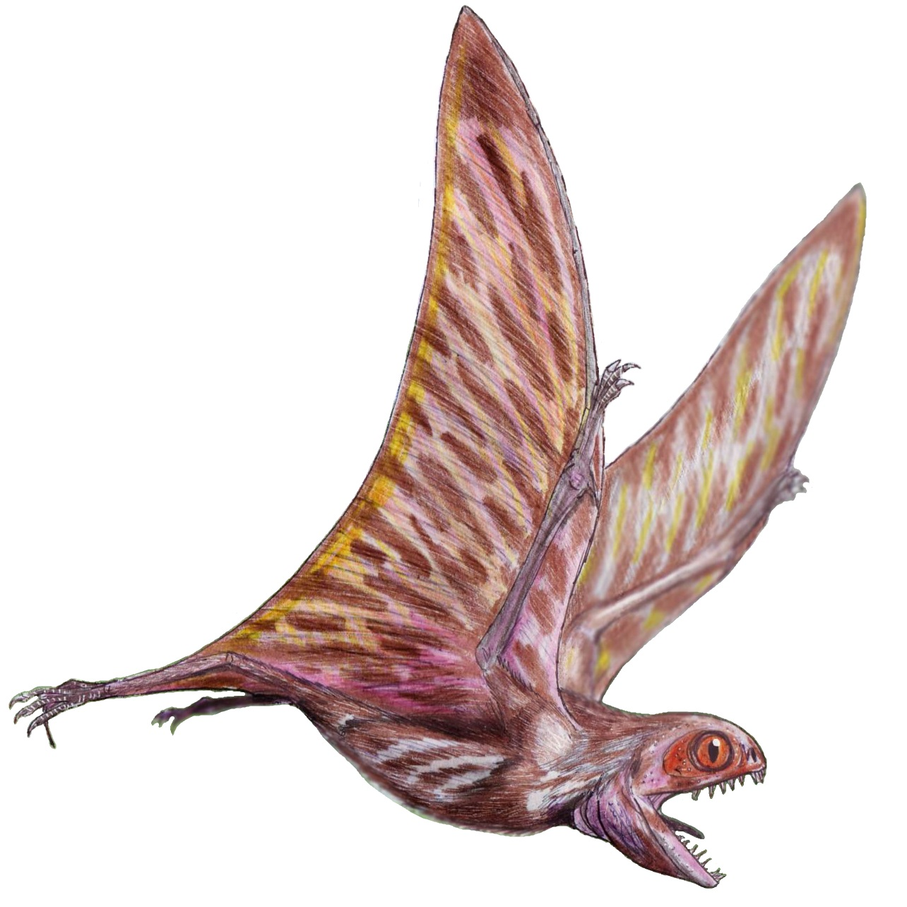 Anurognathus ammoni, a pterosauria from the Upper Jurassic of Germany (Solnhofen limestone) hunting Kalligramma haeckeli.